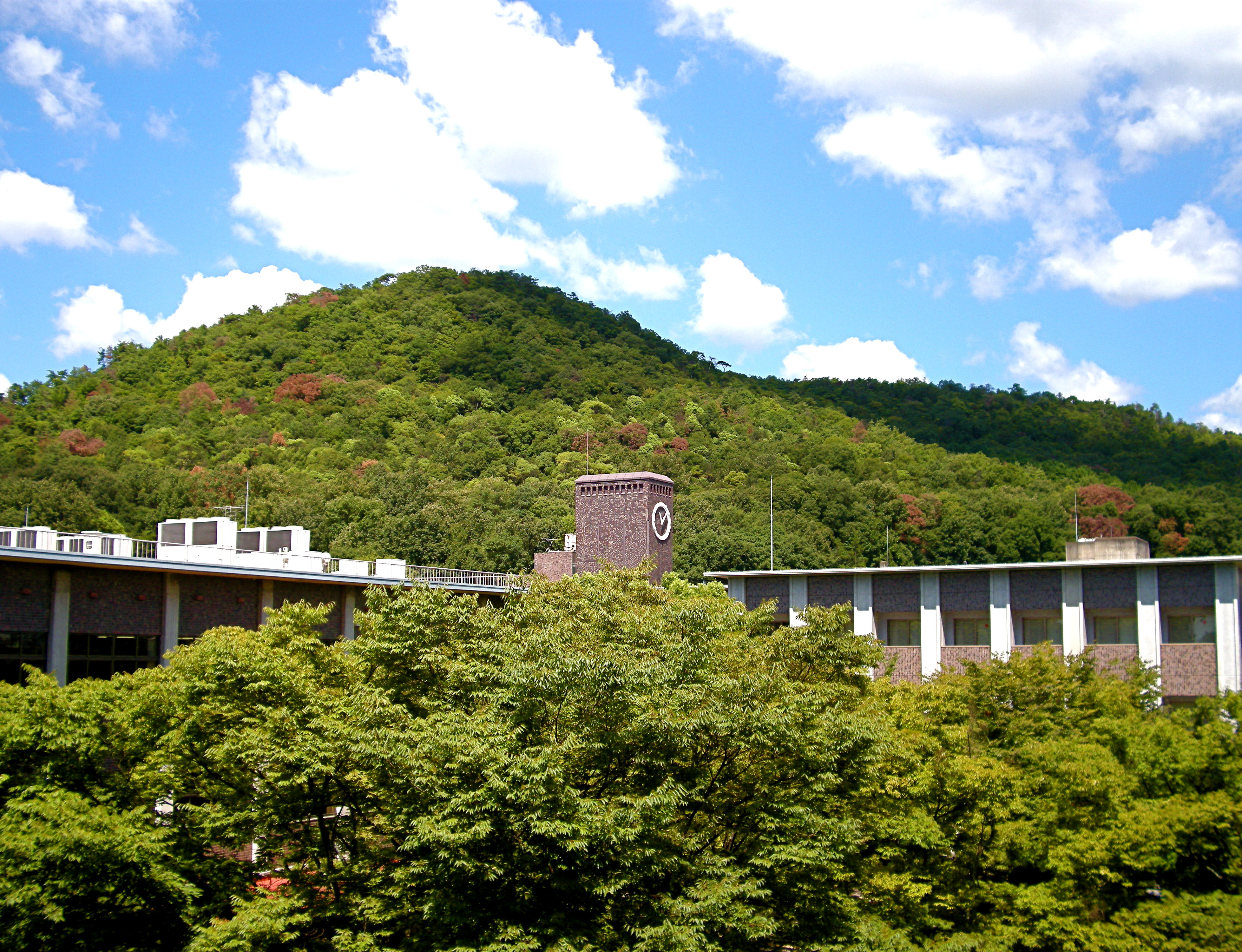 Mount Kinugasa (Kyoto) viewed from Kinugasa Campus of Ritsumeikan University